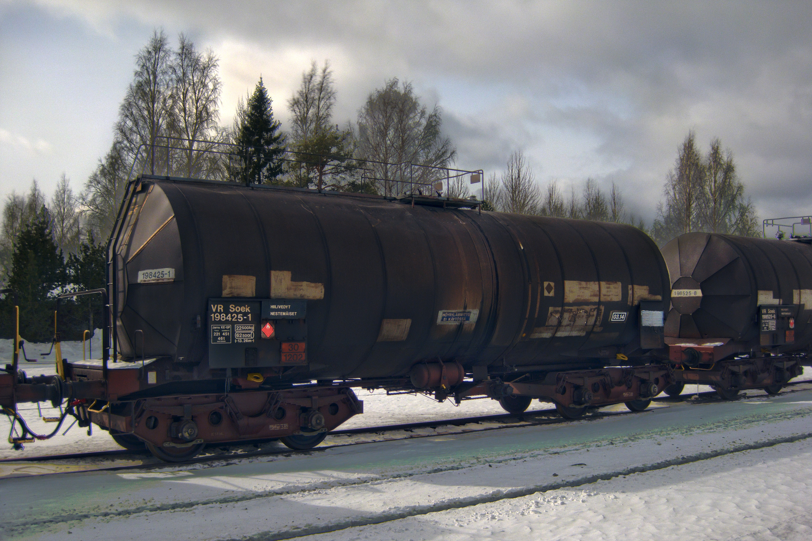 VR class Soek tank wagon at Varkaus railyard, Finland.